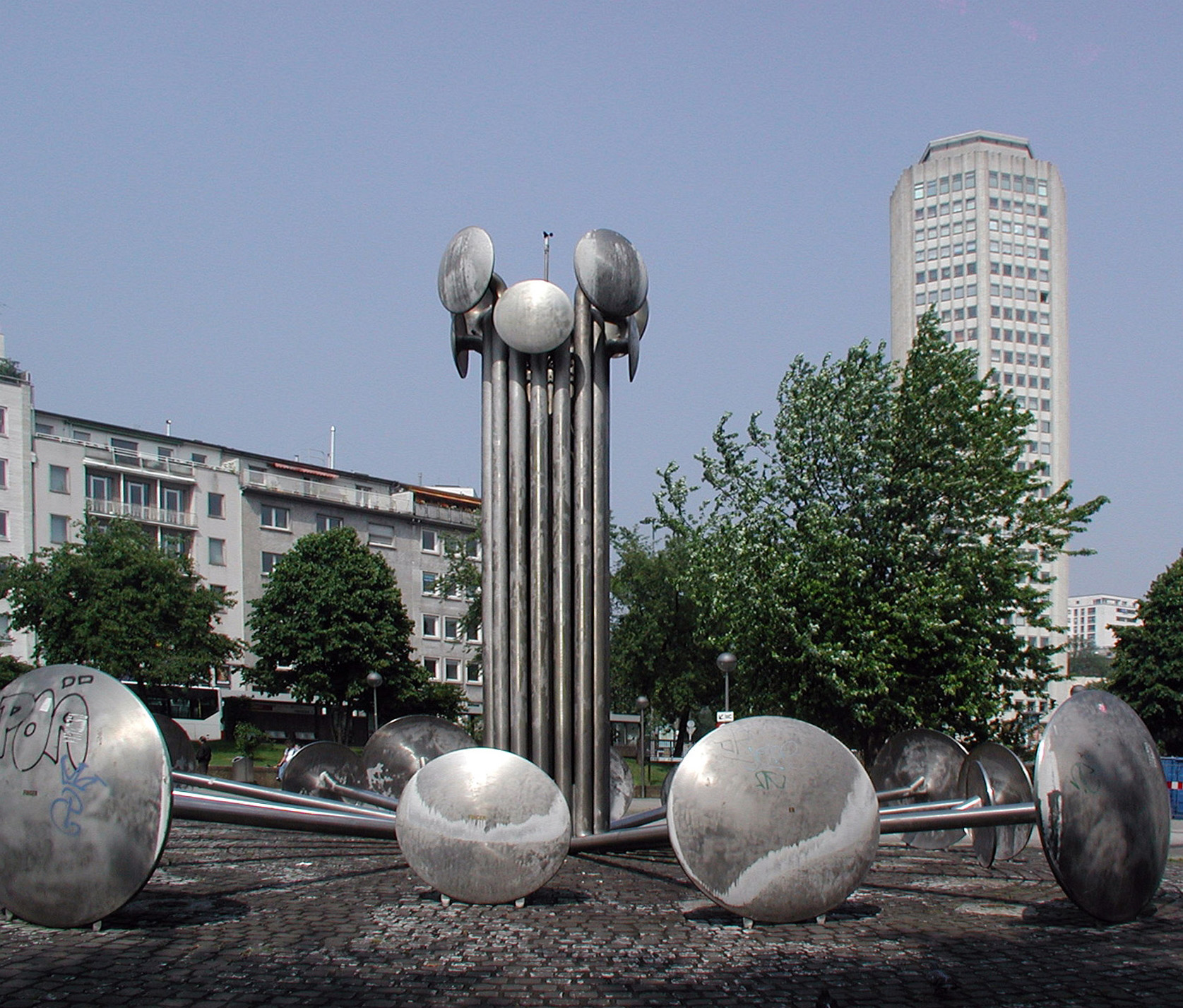 Cologne - fountain Ebertplatz